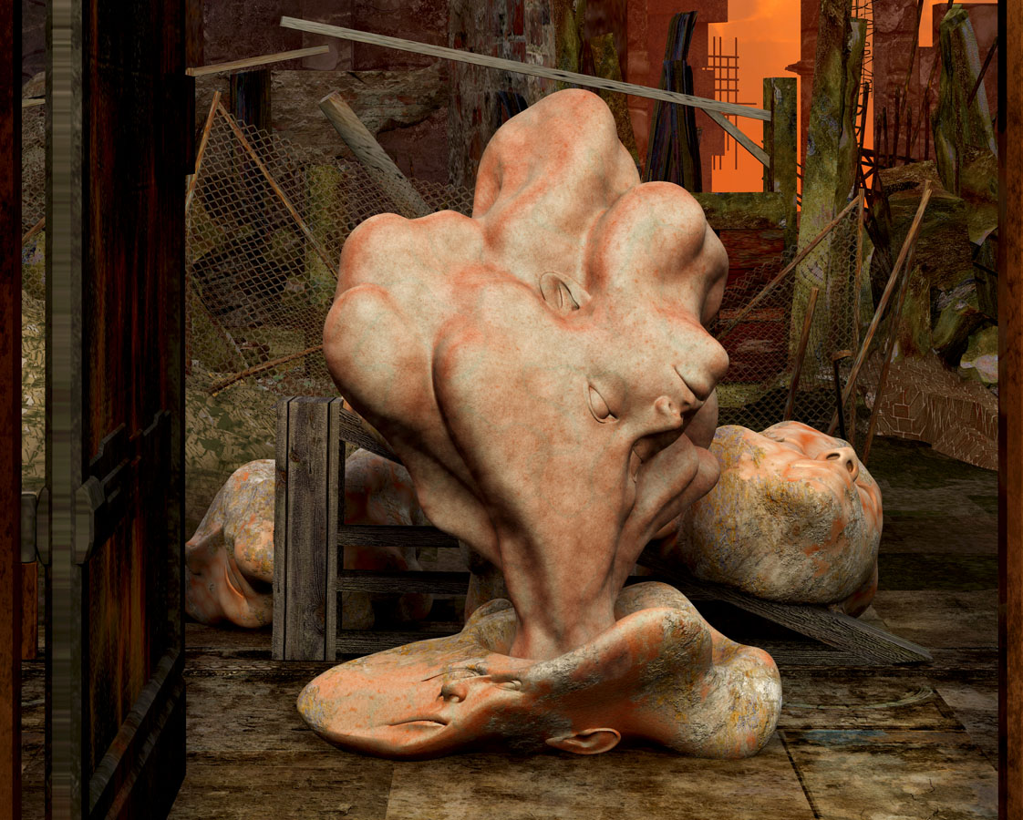 "Too much world (1)", 2010, single-channel video, Marina Núñez